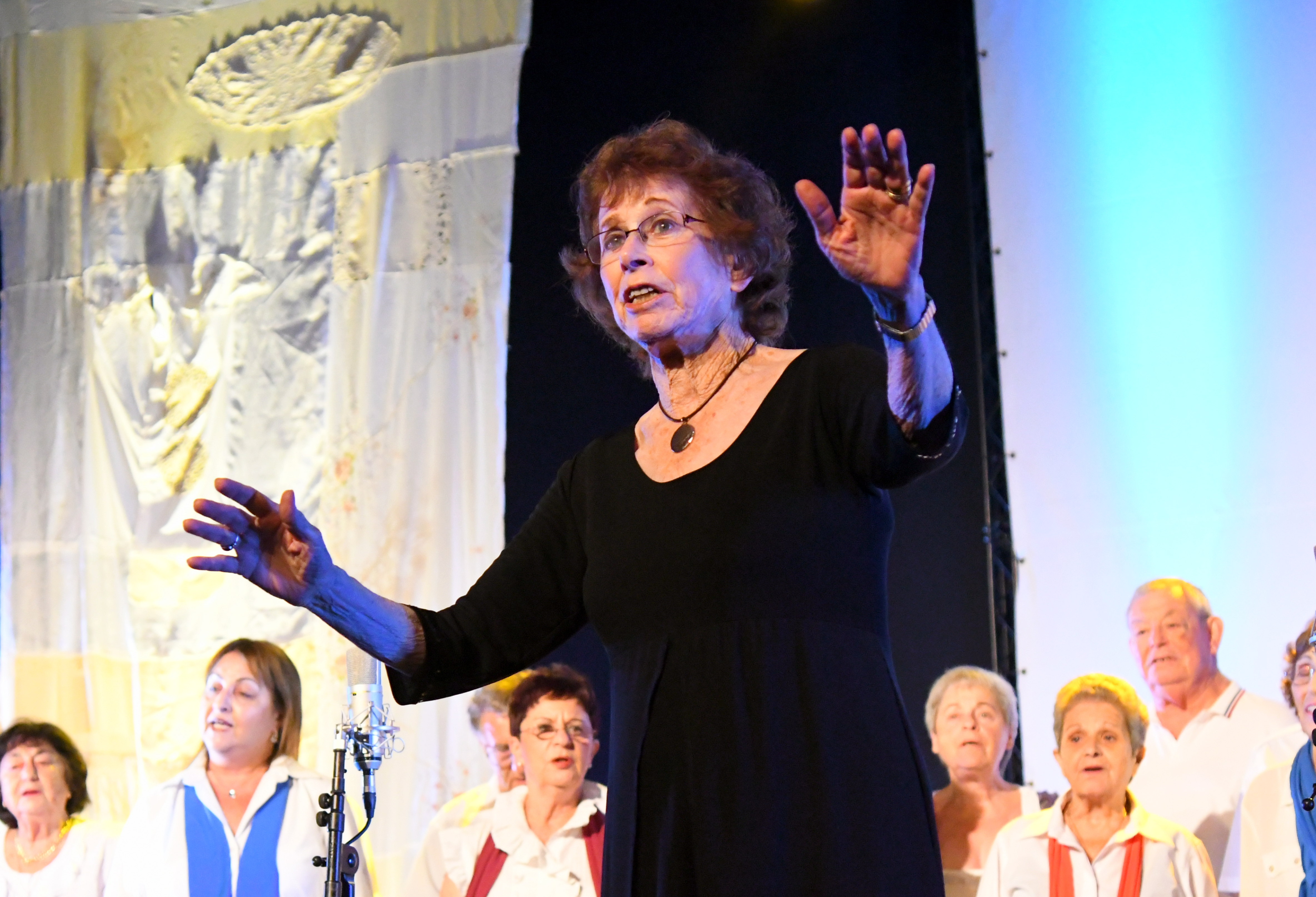 Maya Shavit conducting in a concert